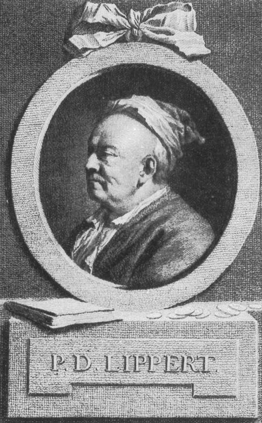 German archaeologist, medalleur and painter Philipp Daniel Lippert (1702-1785) etched by Christian Gottlieb Geyser (1742-1803) after a work of Anton Graff (1736-1813); today in the Kupferstichkabinett Dresden (PD 150 588)